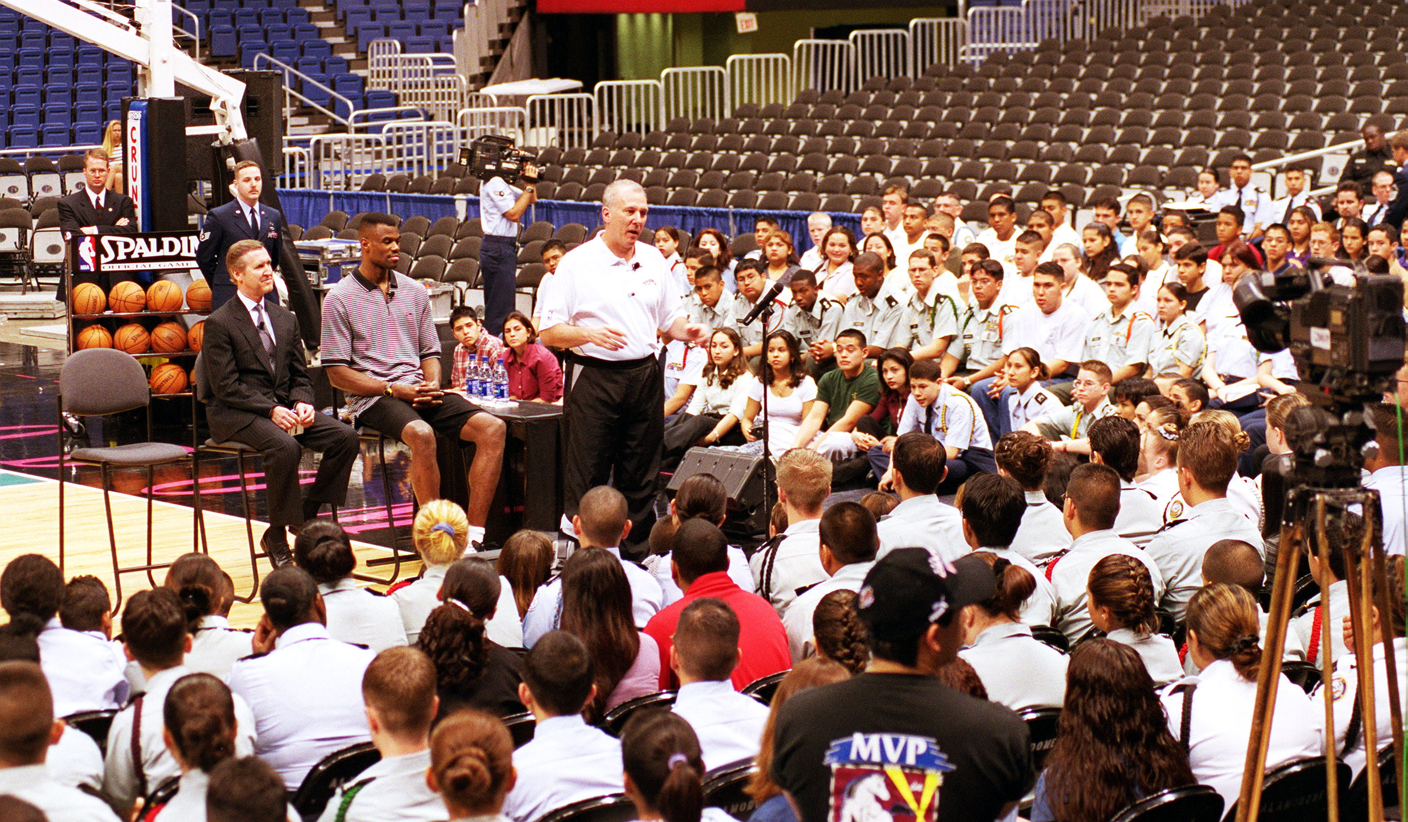 San Antonio Spurs' Head Coach Gregg Popovich (center) is joined by Secretary of Defense William S. Cohen (seated left) and Spurs' player David Robinson (seated right) as he talks with about 300 Junior ROTC cadets from local high schools at the Alamo Dome, in San Antonio, Texas, on March 3, 2000. Popovich, a graduate of the U.S. Air Force Academy and Robinson, a graduate of the U.S. Naval Academy, were able to provide many personal insights on how their experiences in the military had helped them develop the attitudes and personality traits that lead them to success in other aspects of their lives.